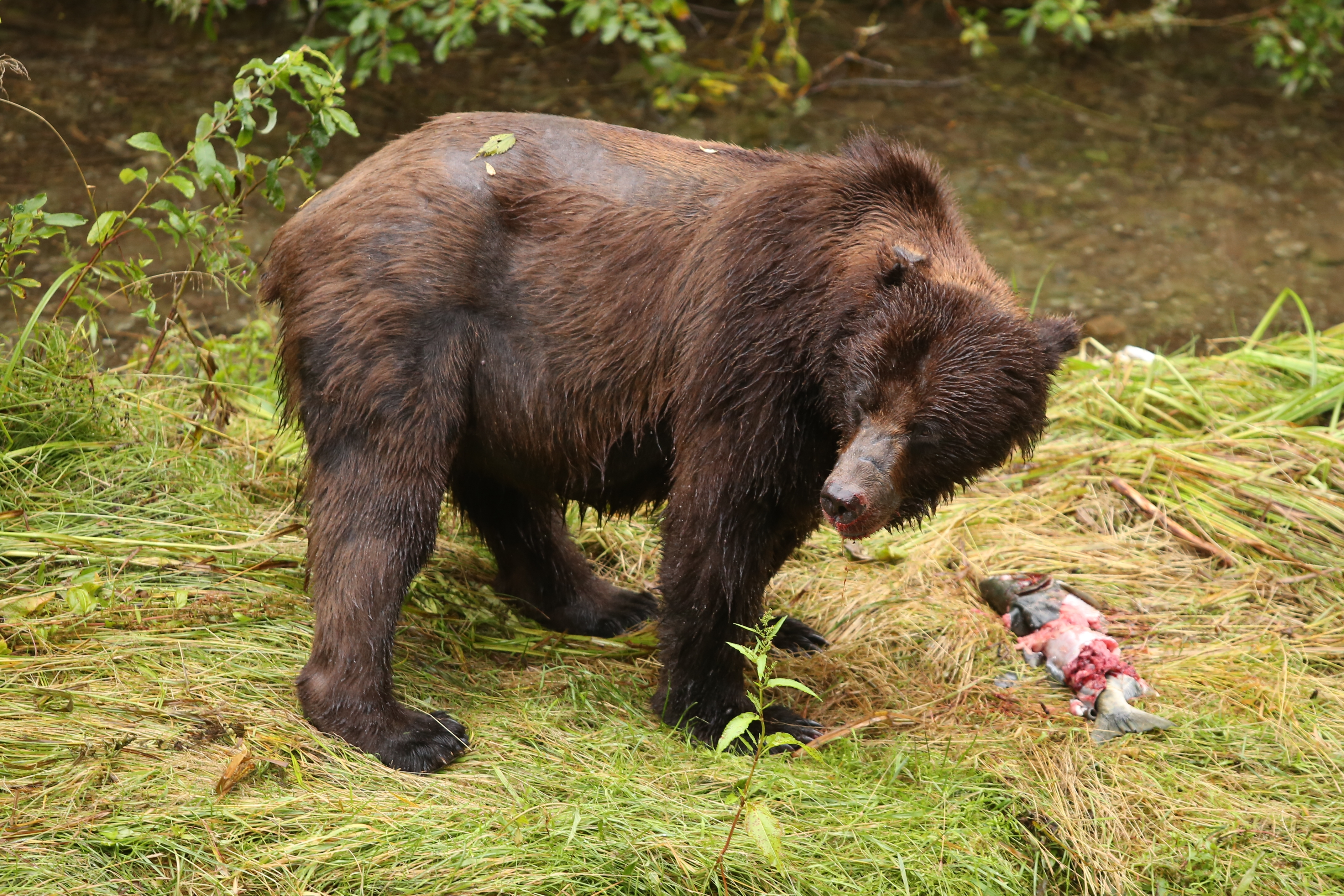 Grizzly Bear at Fish Creek during the Salmon run